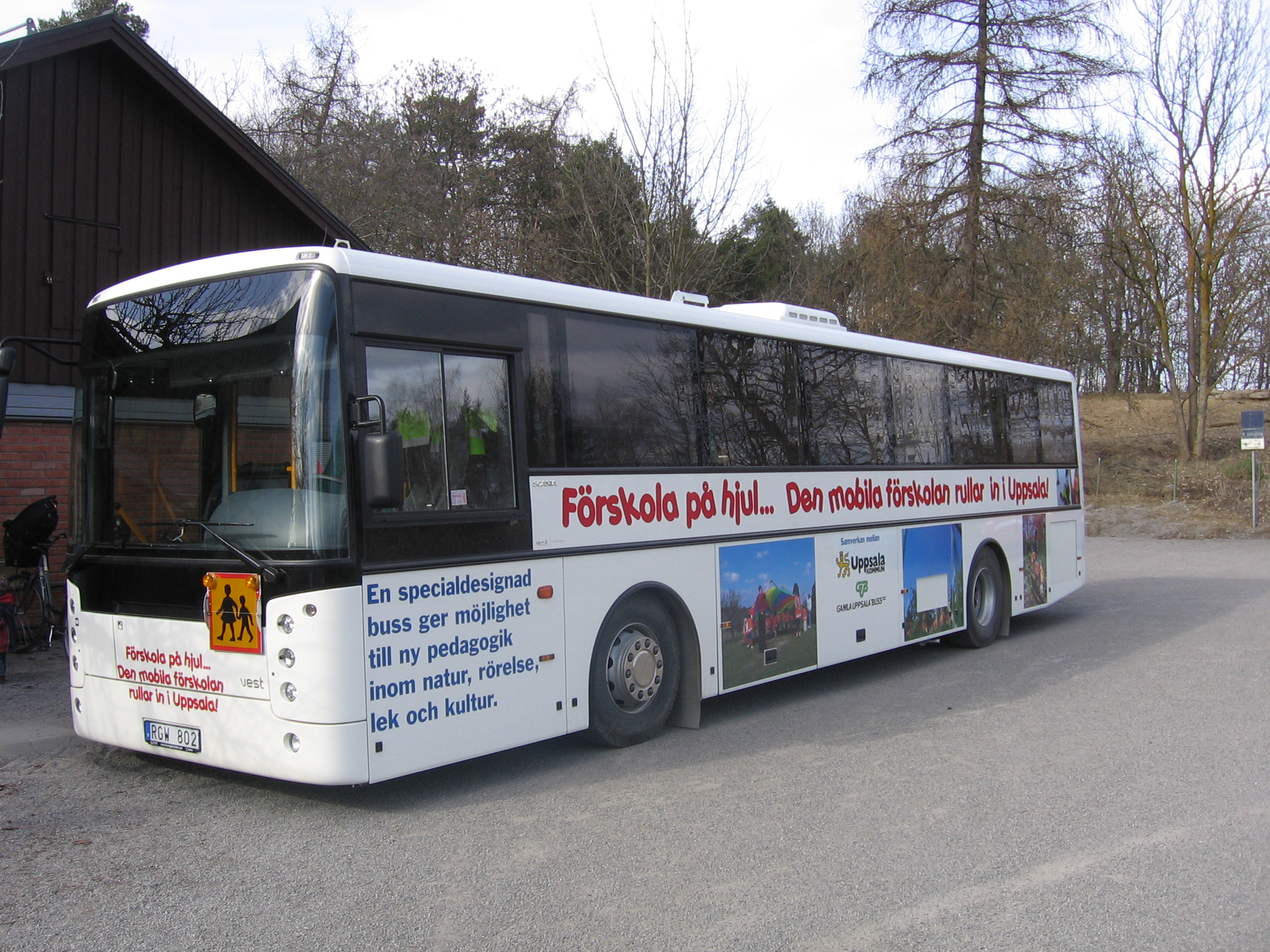 Preschool bus "Maja" in Uppsala